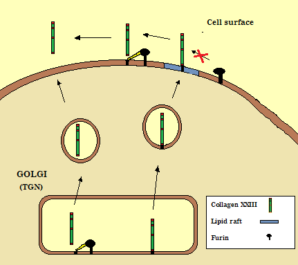 Collagen XXIII molecule might be shed at Golgi compartment or the cellular membrane. The molecule can also keep its full-length form as long as it is protected from the action of the sheddase (furin) by lipid rafts.